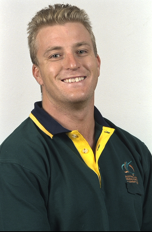 Portrait of Australian cyclist Darren Harry, 2000 Australian Paralympic Team athlete